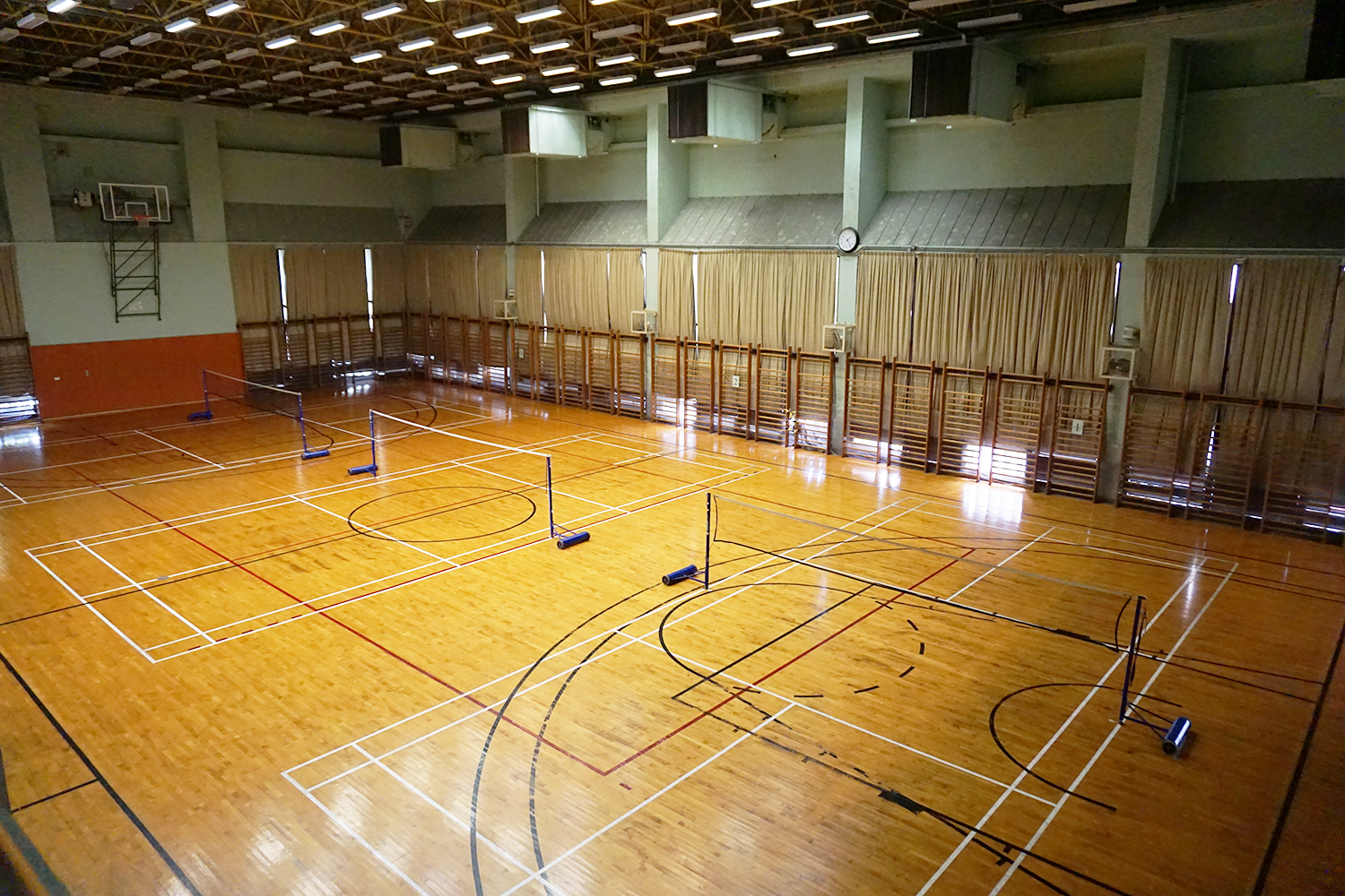 Fung Shue Wo Sports Centre in Tsing Yi, Hong Kong.